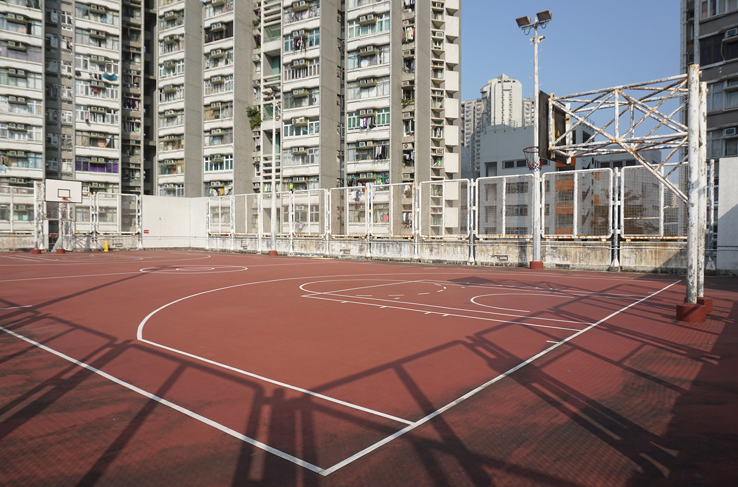 Tak Nga Court in Tai Po, Hong Kong.